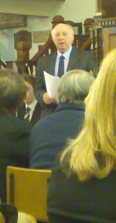 Arthur Scargill speaks at a Socialist Labour Party public meeting in Pontypridd